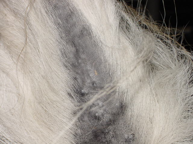 multiple melanomas in an old grey horse